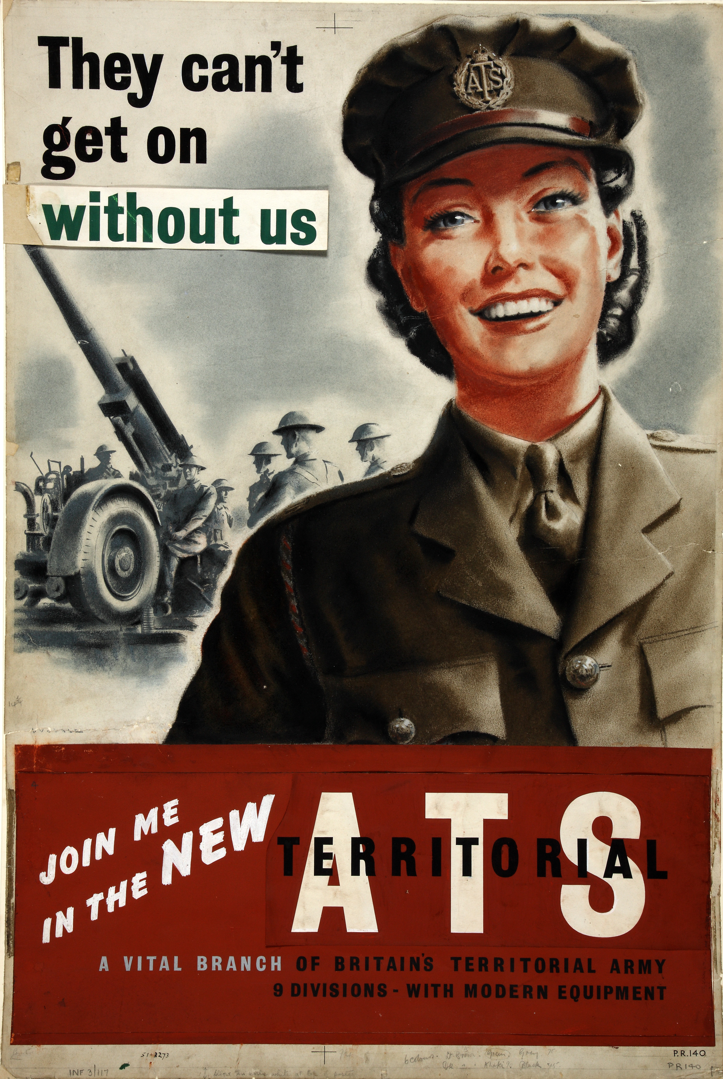 They can't get on without us. Join me in the new ATS, a vital branch of Britain's territorial army. 9 divisions - with modern equipment